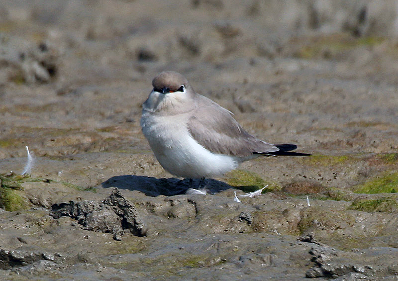 Small Pratincole Glareola lactea at Purbasthali in Bardhaman District of West Bengal, India.